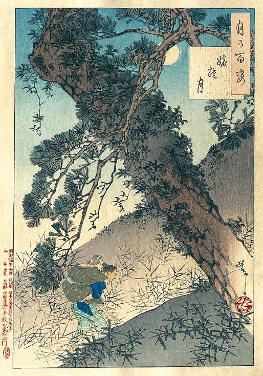 The moon and the abandoned old woman (Obasute no tsuki)